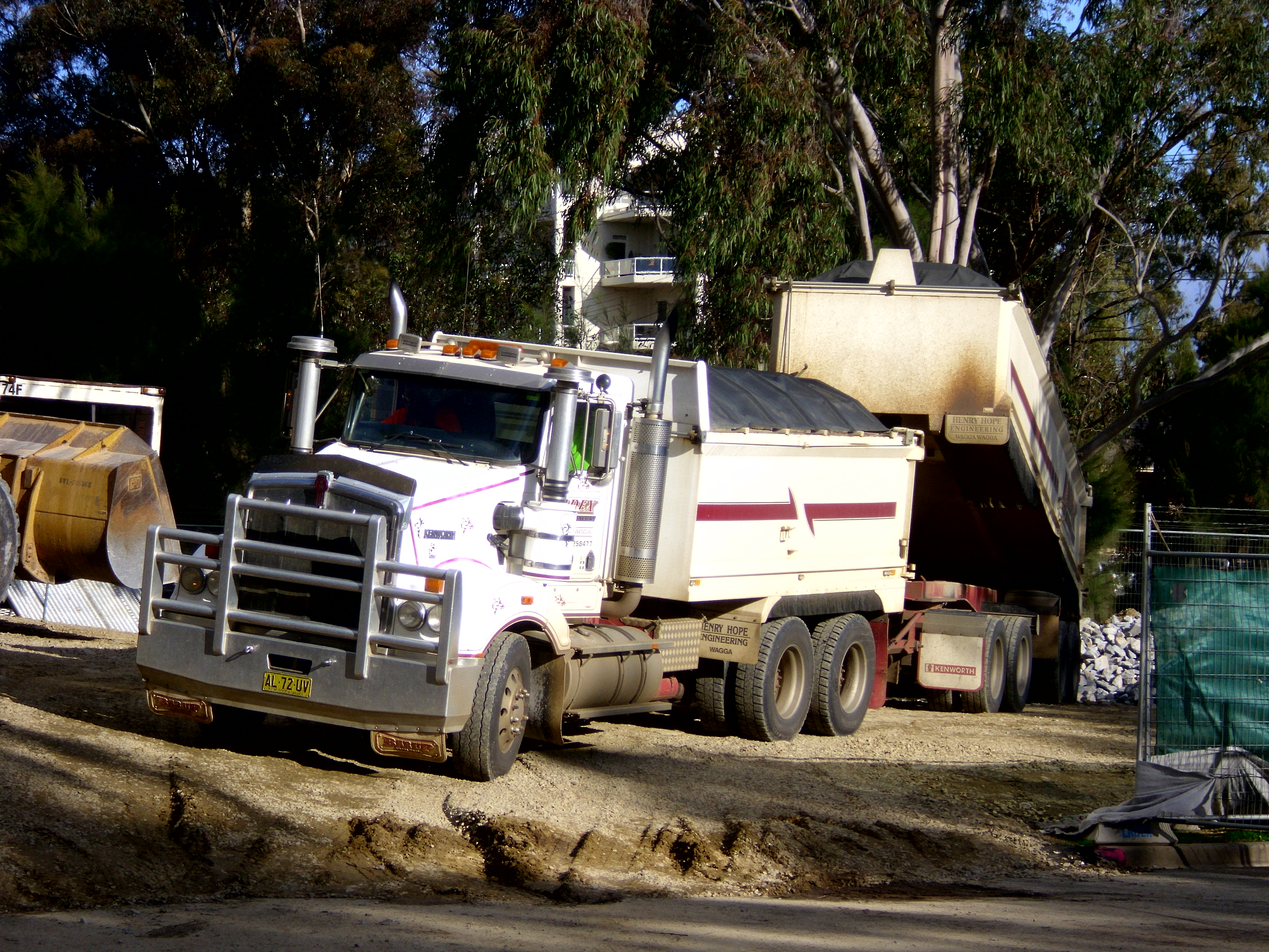 Tip truck and quad dog trailer unloading rocks for reinforcement of the river bank in Wagga Wagga, New South Wales.